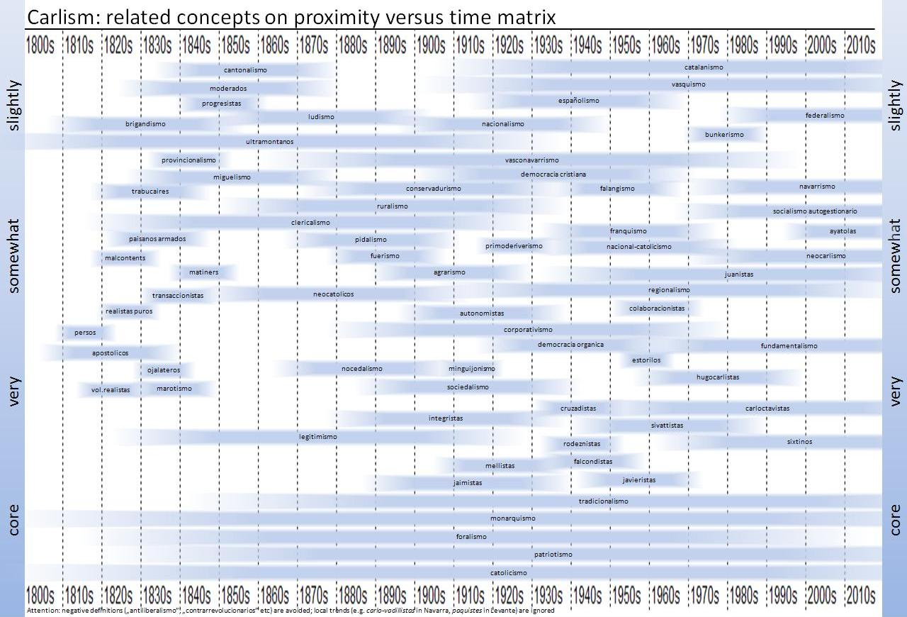 Carlist ideological context; related concepts plotted on the proximity vs. timescale matrix